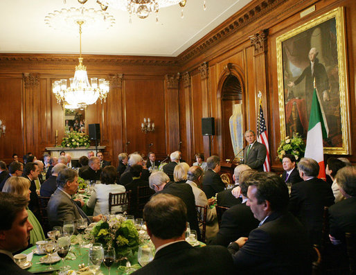 George W. Bush and Taoiseach Bertie Ahern during the annual Saint Patrick's Day Friends of Ireland luncheon in the Rayburn Room at the U.S. capitol in 2008.